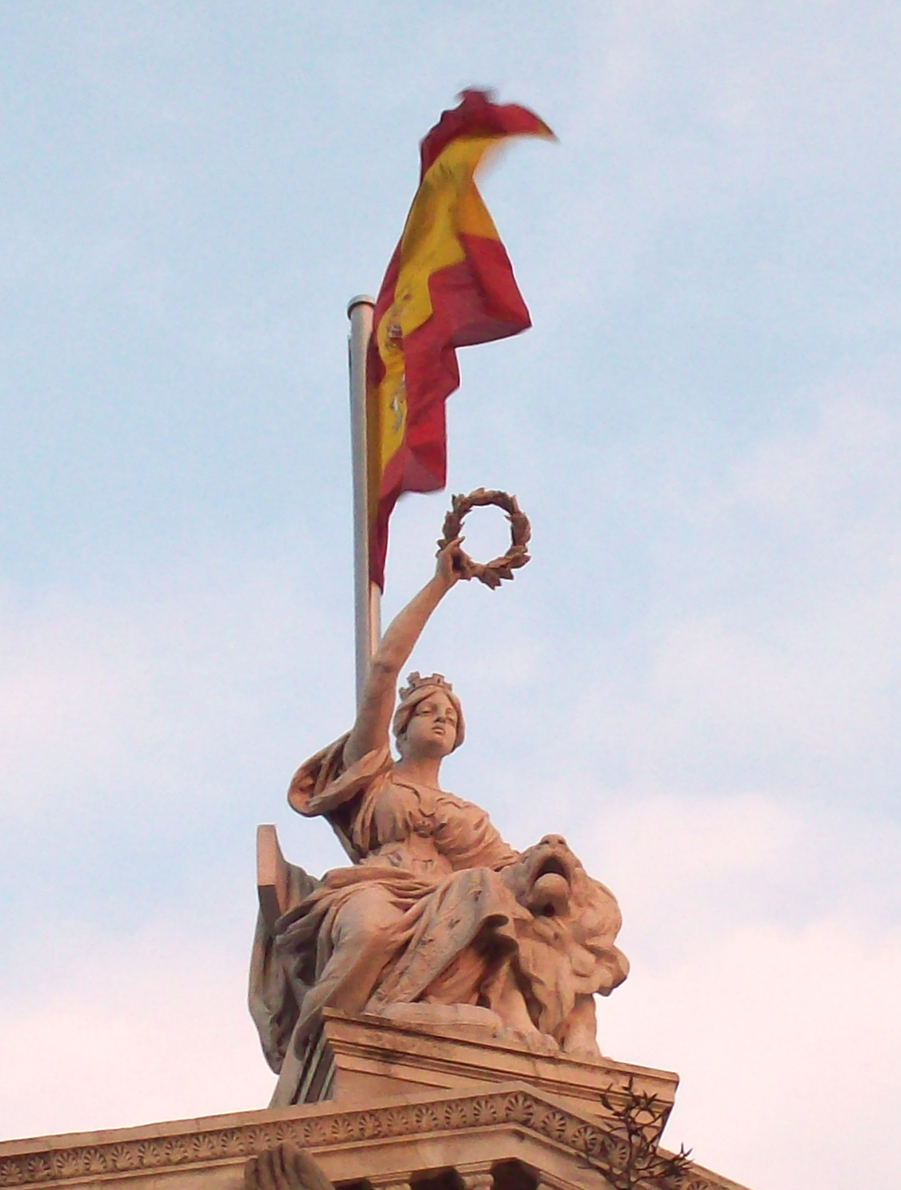 An allegory of Hispania, who, with a laurel wreath, symbolically awards the works of ingenuity from her sons.